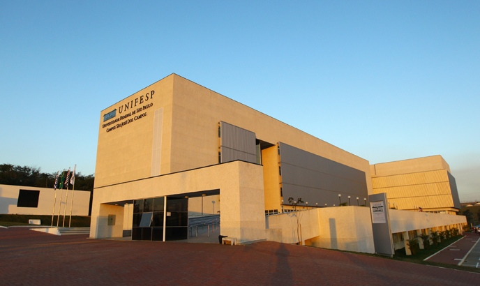 Unifesp - SJC - Campus Pq. Tecnológico, Fim de Tarde